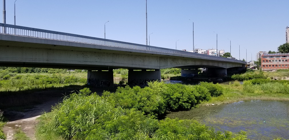 Green Bridge in Plovdiv